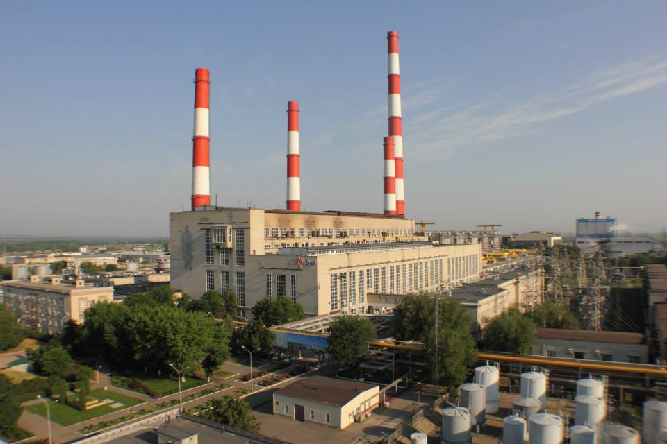 Nevinnomiskaya GRES